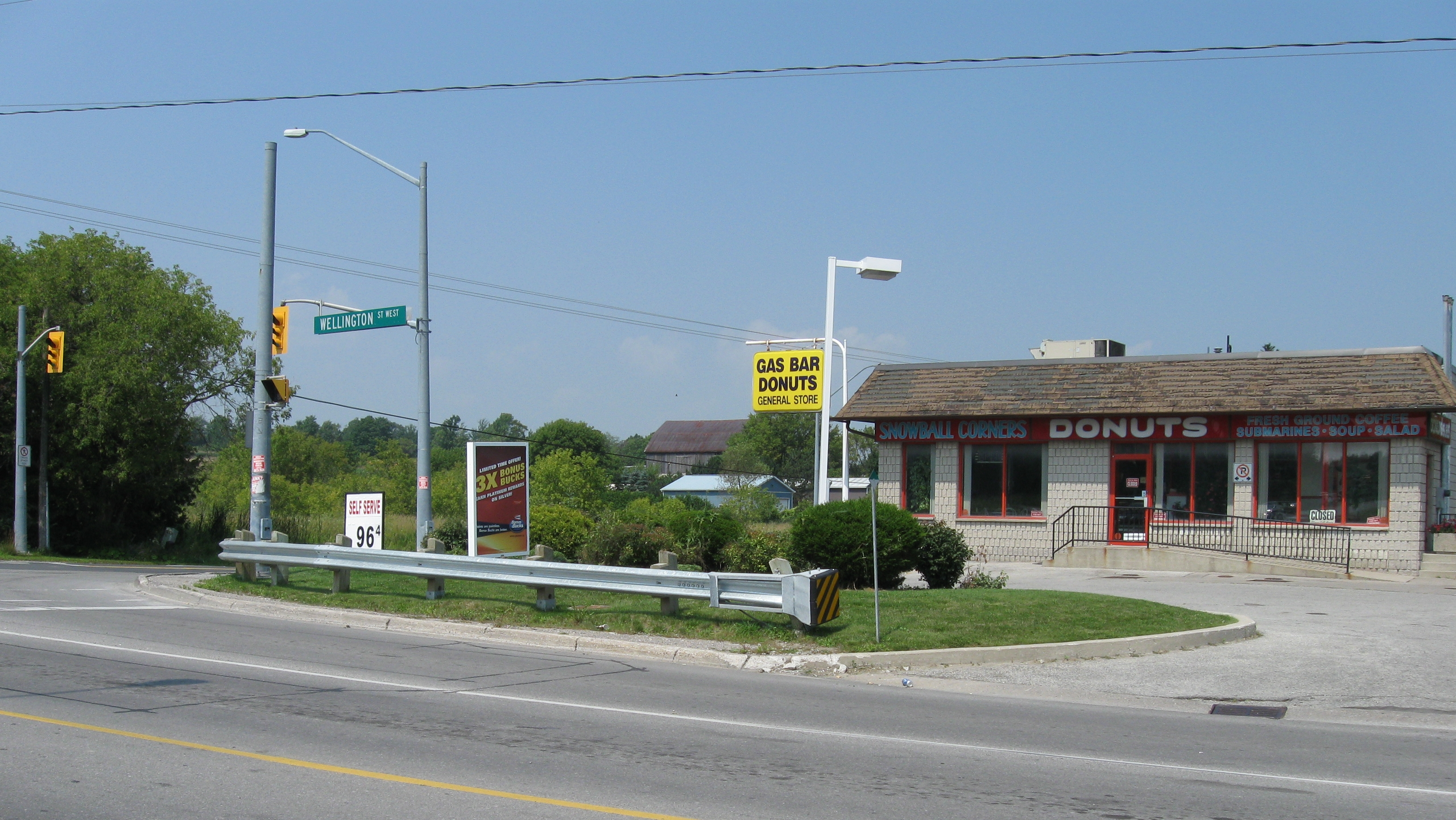 Snowball Corners at Wellington St W and Dufferin St. (I remember a more rustic corner of Snowball on a trip through a couple months ago, but I'll have to find it again.)